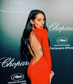 Giulia Lupetti at 72nd Cannes Film Festival, May 17th, 2019, Cannes, France